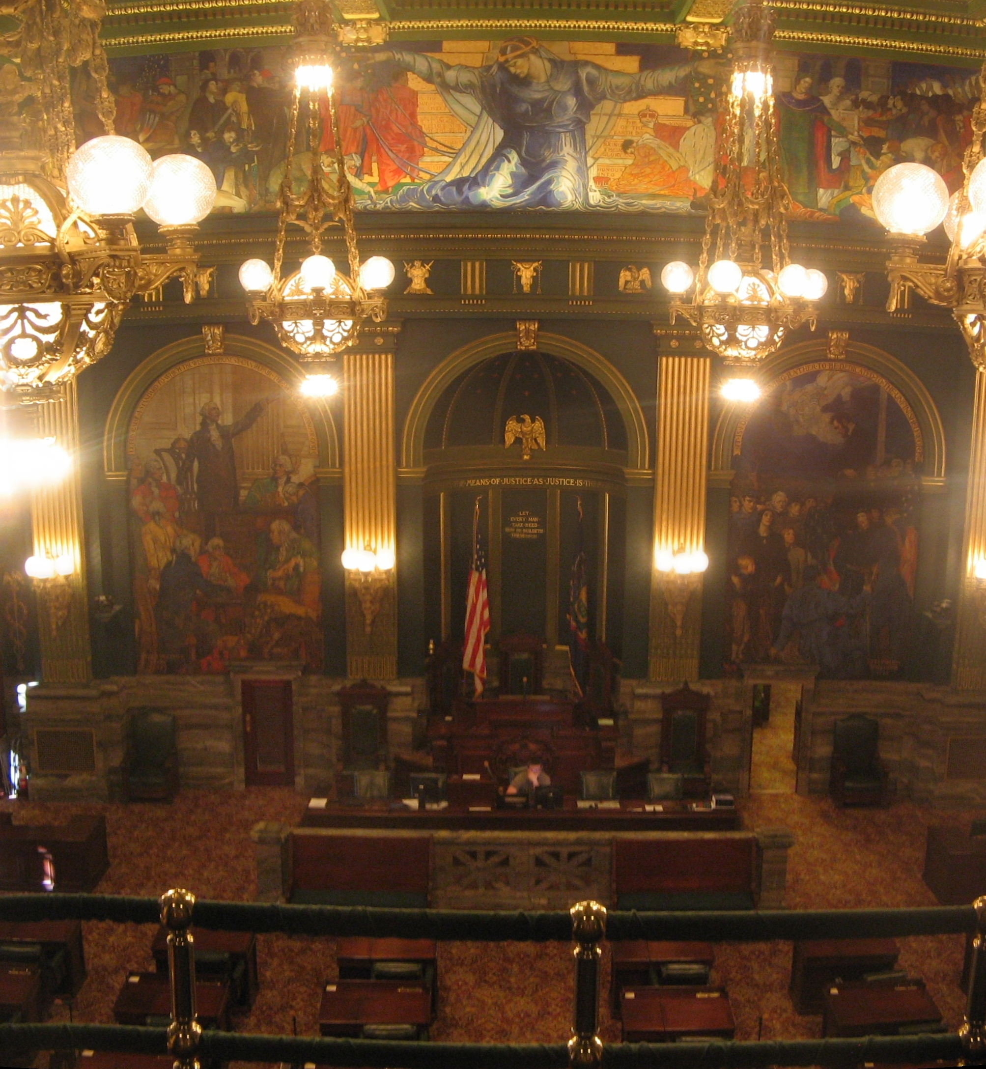 Senate chamber in the Pennsylvania State Capitol in Harrisburg, Pennsylvania, USA, seen from visitor's balcony